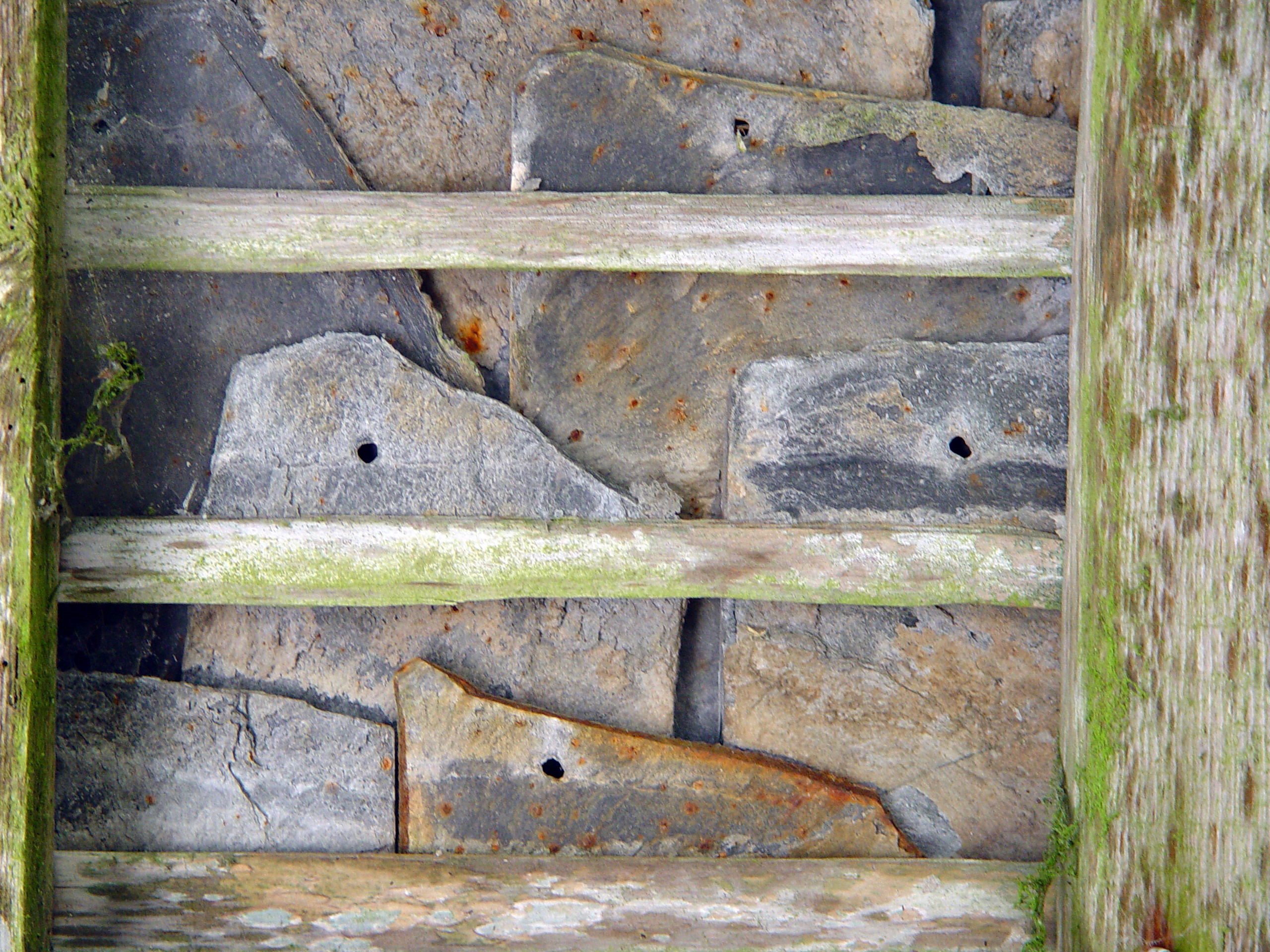 Slates with holes for fixing, viewed from below. Photographed in Tremedda Cornwall UK farm.